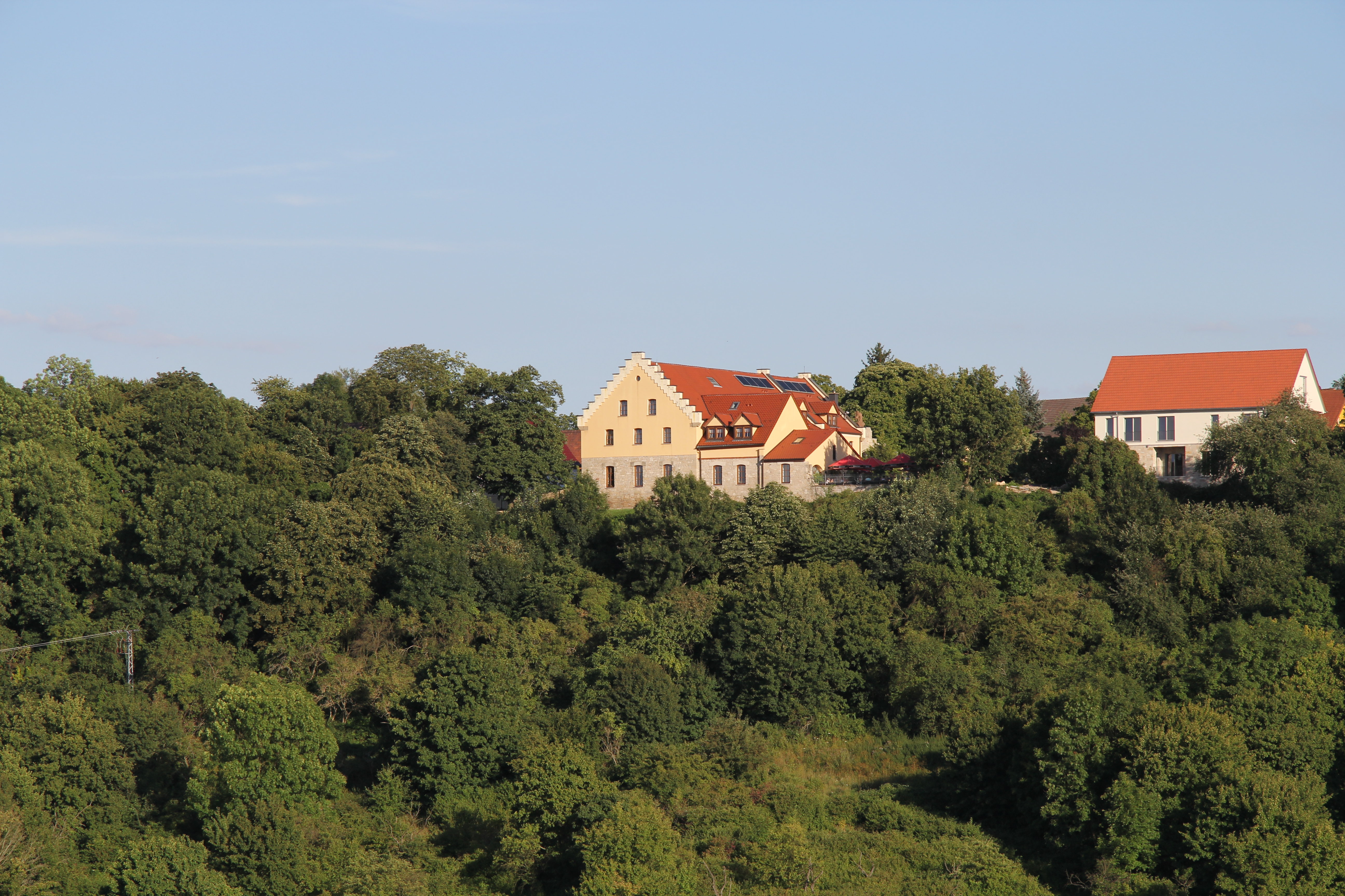 Kreipitzsch Manor, seen from the tower of Rudelsburg Castle, Bad Kösen, Saxony-Anhalt / Germany